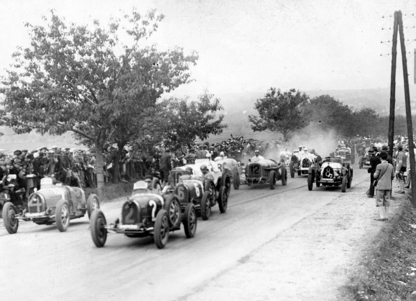 Walter Super 6B, start of the race at Masaryk Circuit Brno (1930). In the foreground Czech riders: No. 2 Jiří Kristián Lobkowicz (Bugatti), No. 4 Miloš Bondy (Bugatti), No. 6 dr. Otakar Bittmann (Bugatti), st. No. 8 Jan Kubíček (Bugatti), No. 12 Jindřich Knapp (Walter) and No. 18 Josef Veřmiřovký (Tatra) - partially covered by No. 10 (Rudolf Caracciola on Mercedes)